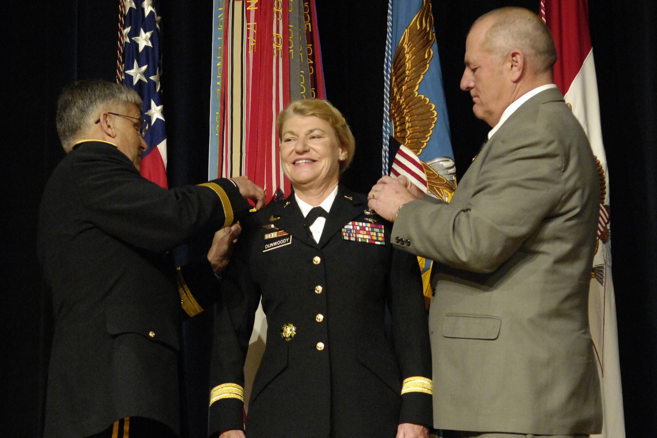 U.S. Army Lt. Gen. Ann E. Dunwoody smiles during her promotion to General, where she was pinned by Chief of Staff of the Army General George W. Casey, left, and her husband Craig Brotchie during her ceremony at the Pentagon Nov. 14, 2008. Dunwoody made history as the nations first 4 star female officer. DoD photo by U.S. Navy Petty Officer 2nd Class Molly A. Burgess